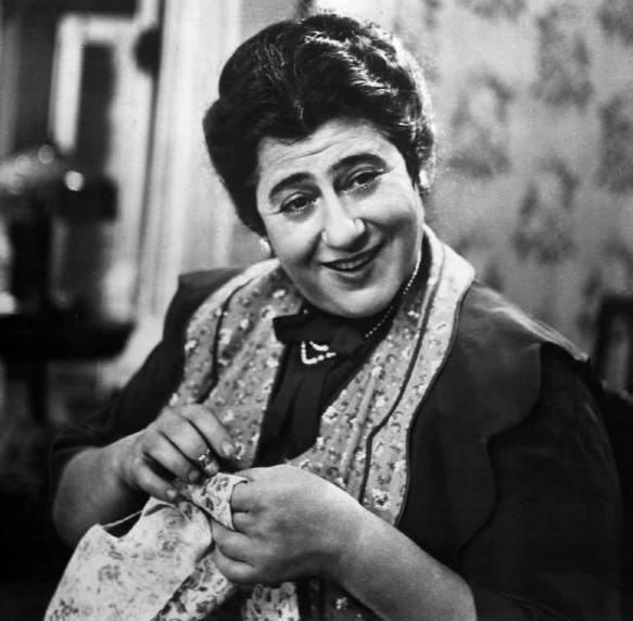 Photo of Gertrude Berg as Molly Goldberg from the television program The Goldbergs.